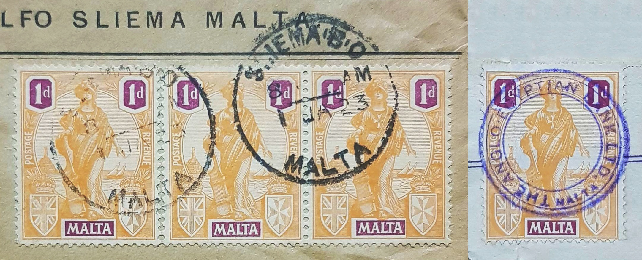 Malta 1922 Melita 1d orange & purple dual-purpose postage and revenue stamp. Photo shows examples of postal and fiscal use, with the strip of three postally used with a 1923 Sliema postmark, and the single fiscally used with an undated Anglo-Egyptian Bank cancellation.